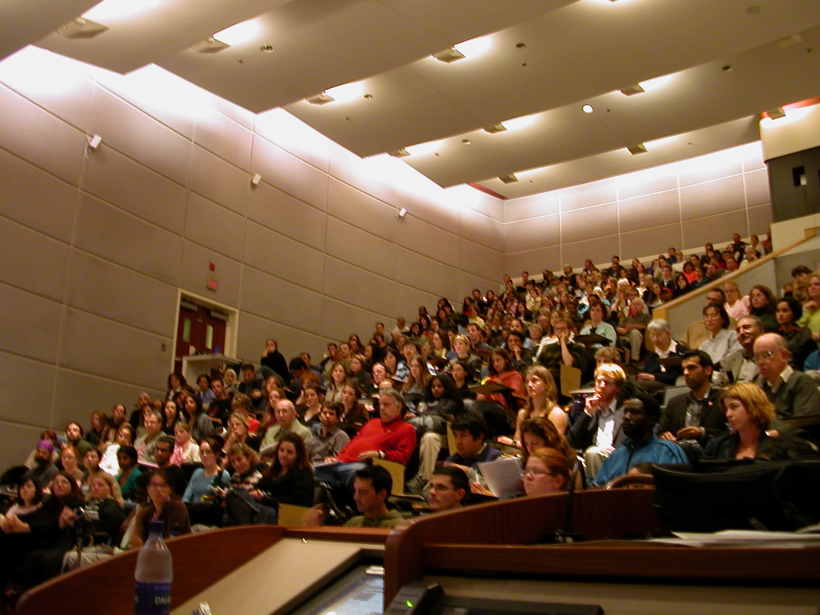 Students in a lecture hall for the first class of Denis Rancourt's Activism Course (SCI 1101) at the University of Ottawa, 13 September 2006.